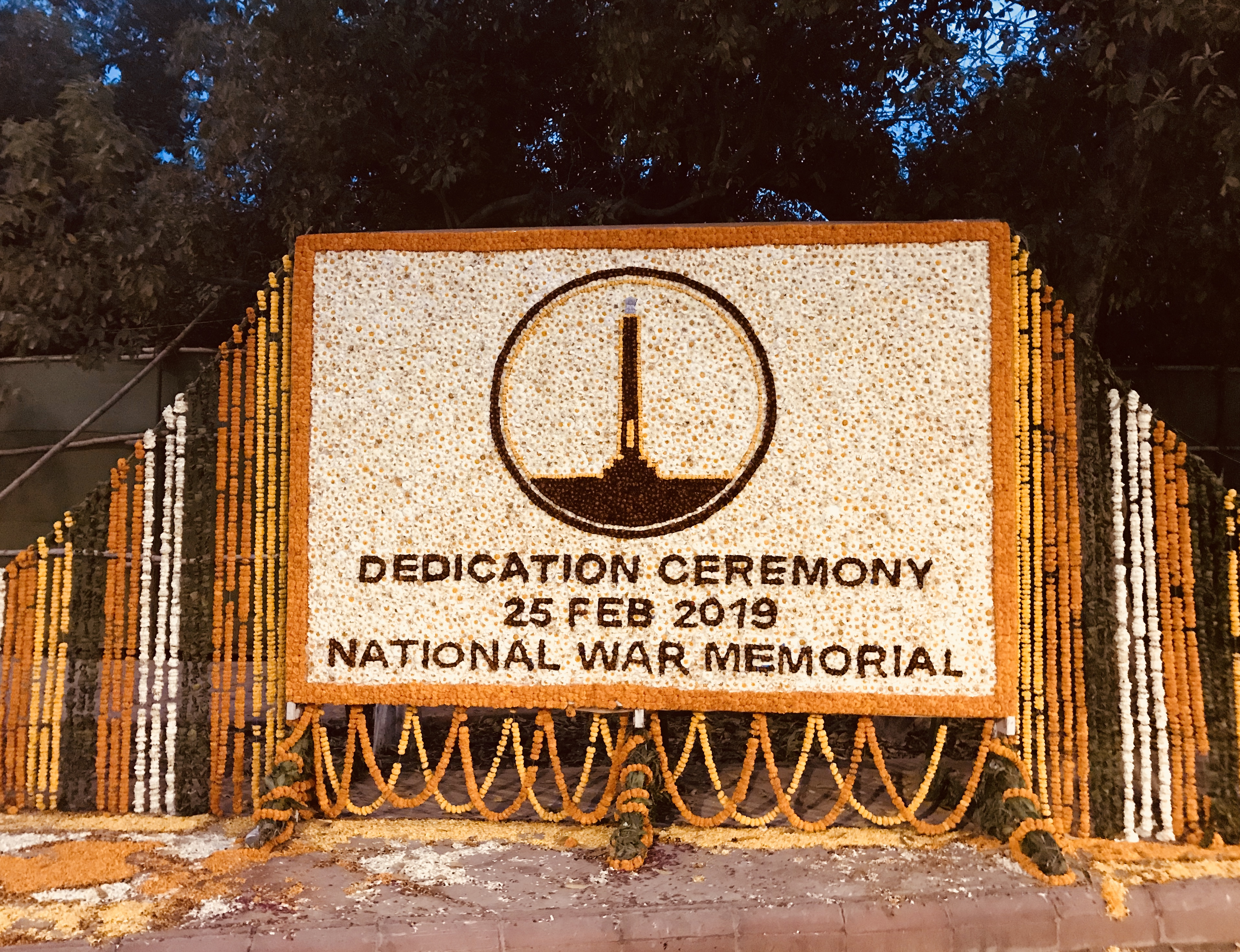 The National War Memorial